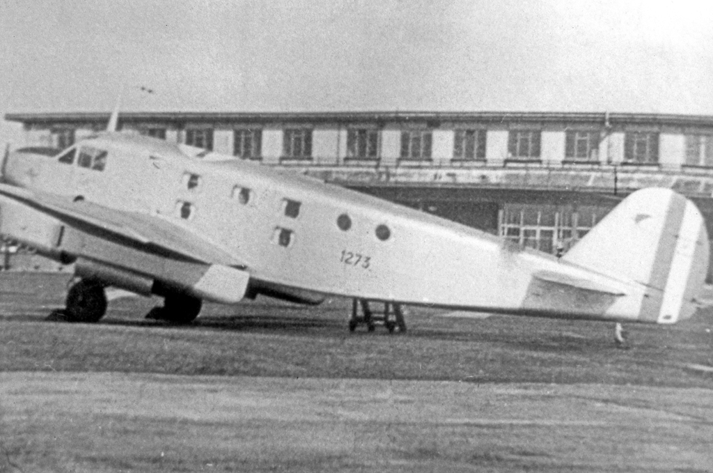 Caudron C.447 Goeland air ambulance of the French Air Force at Manchester Airport in 1947